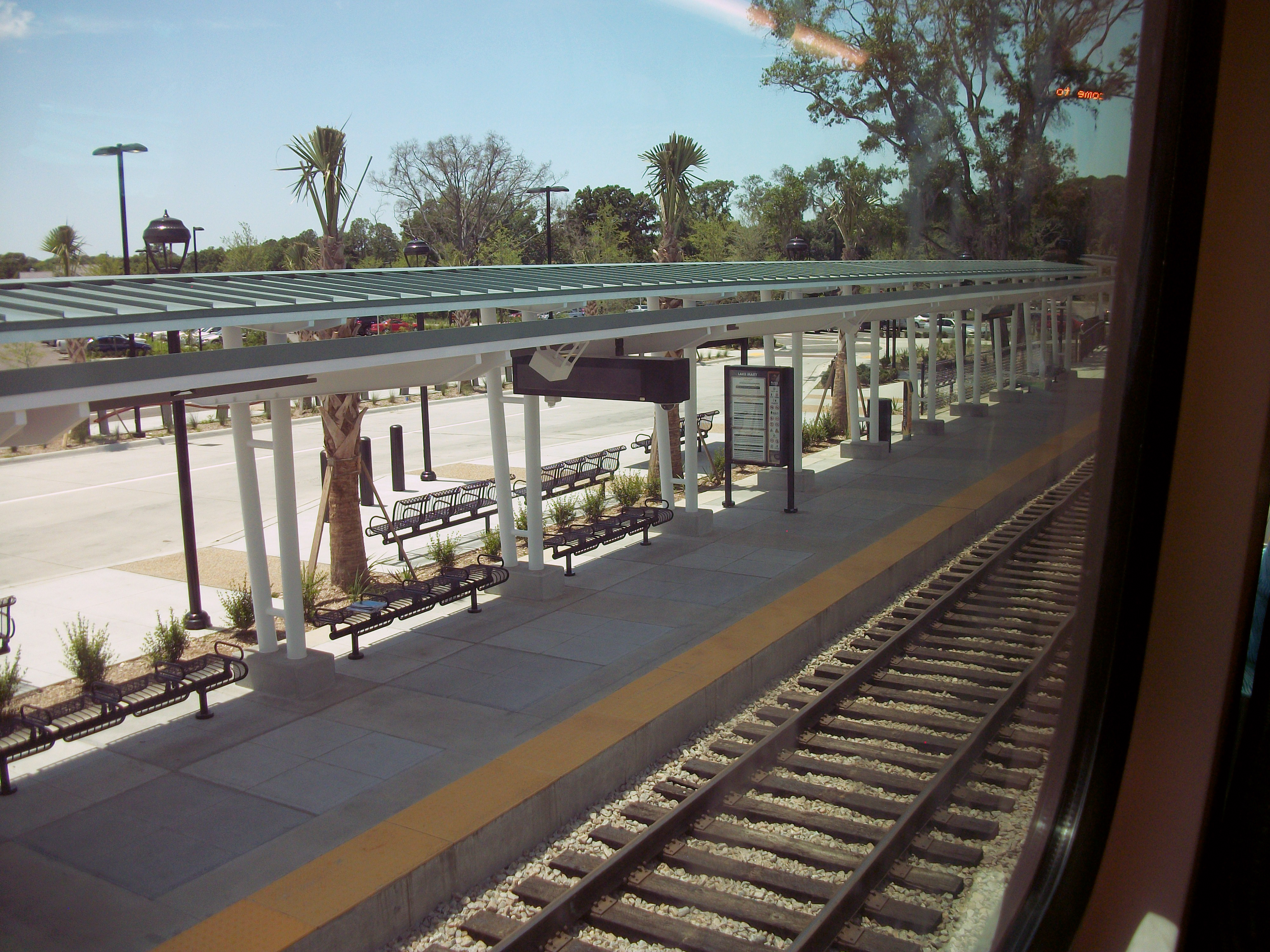 View of the Kiosks at Lake Mary SunRail Station in Lake Mary, Florida as seen from a SunRail passenger car. Originally I didn't want to post this as an image, but I decided to add this one anyhow.